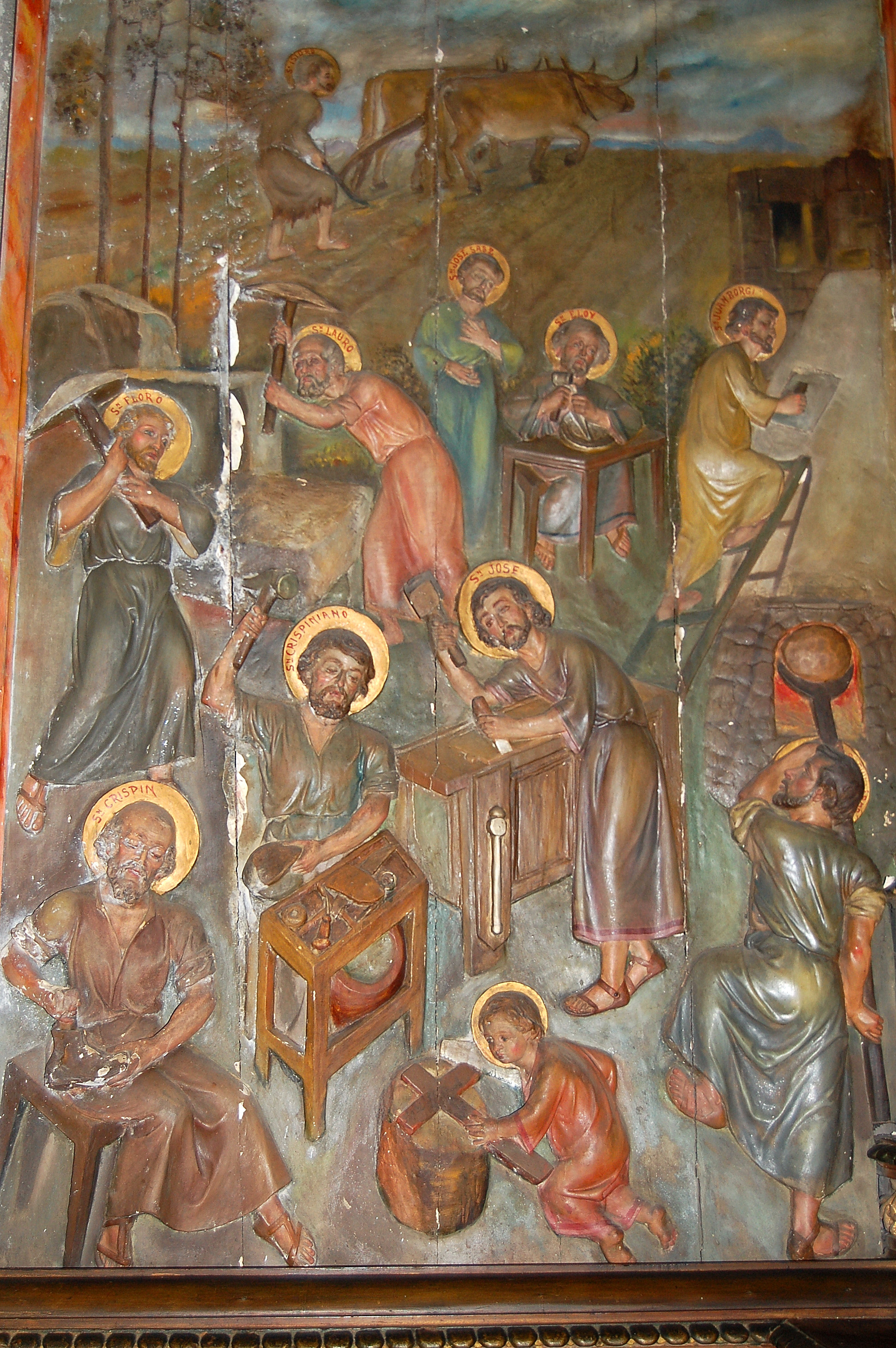 Obradoiro de San Xosé na igrexa de Santo Agostiño en Santiago de Compostela